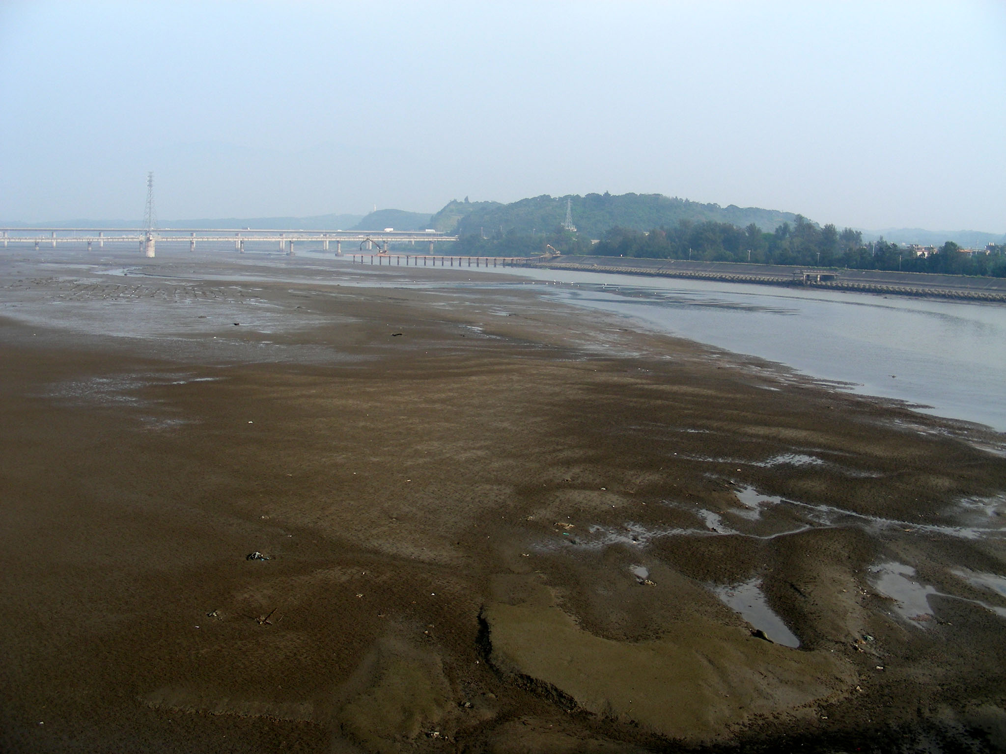 The "Jhong Gang" River, Taiwan